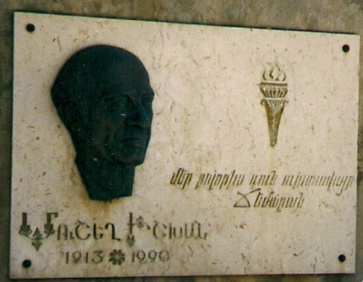 Մուշեղ Իշխան հեղինակ Հայ Ճեմարանի քայլերգին